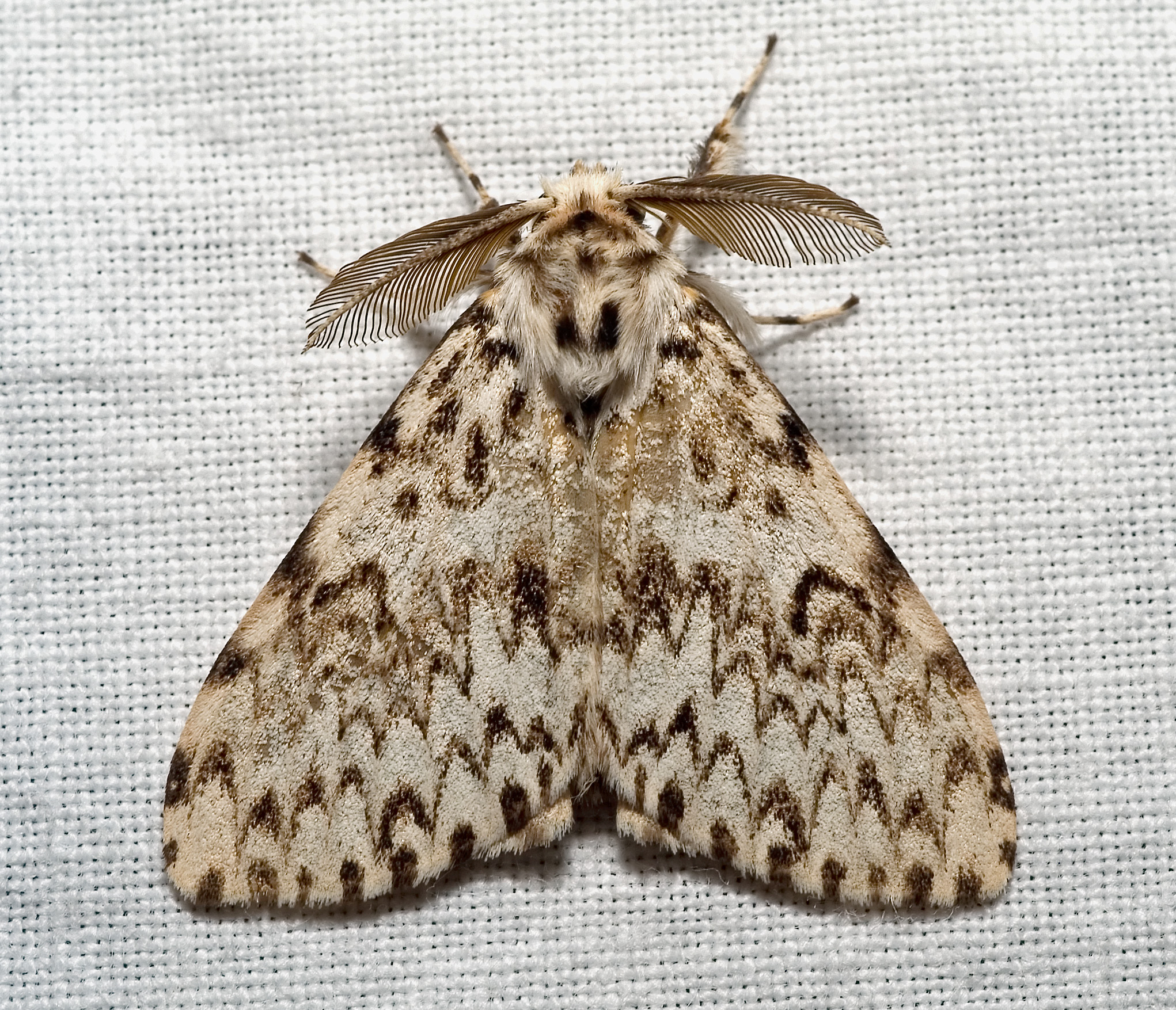 Please report references to kulacgmx.at.